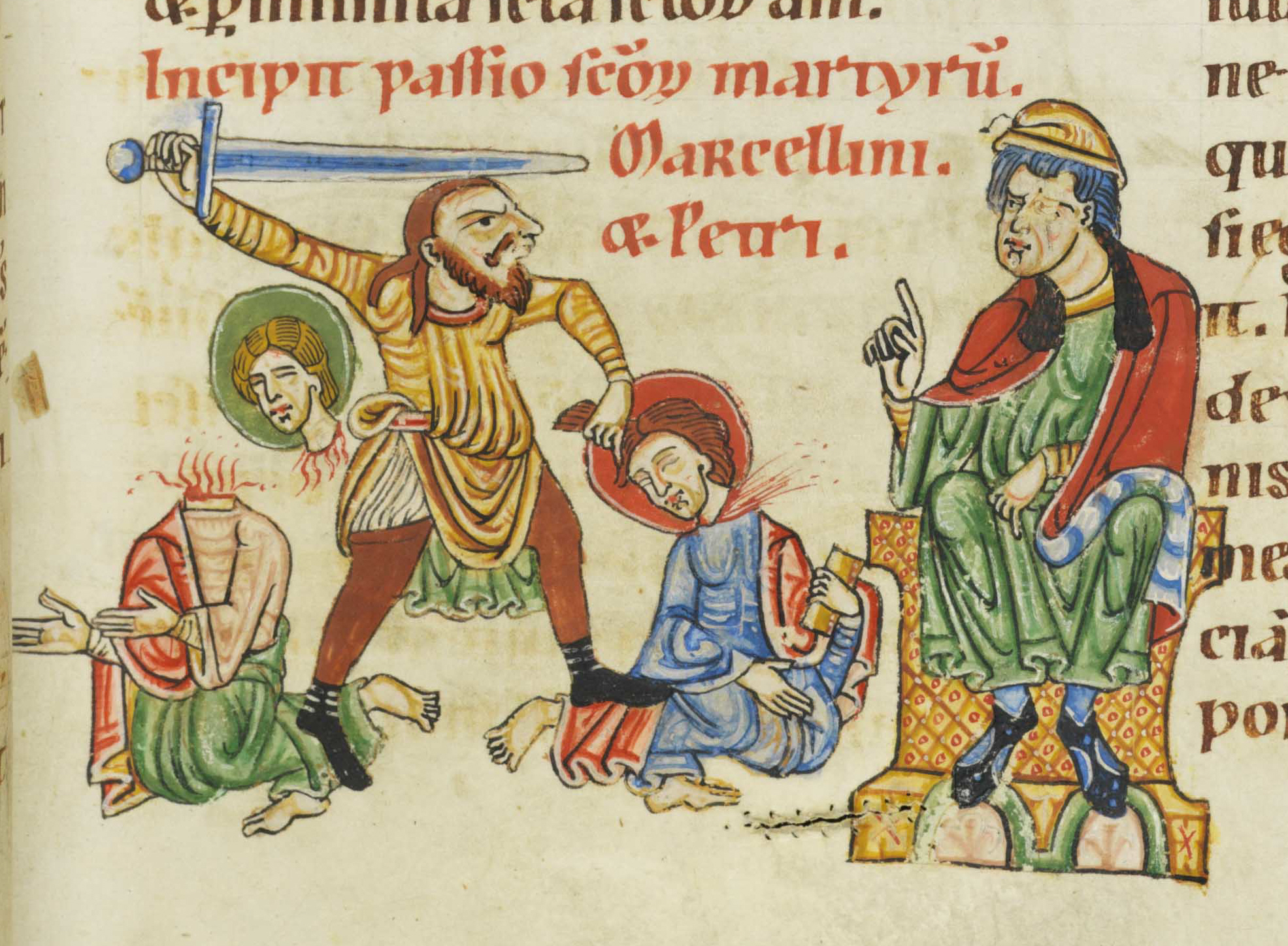 Martyrium der hl. Petrus und Marcellinus; aus dem Weißenauer Passionale; Fondation Bodmer, Coligny, Switzerland; Cod. Bodmer 127, fol. 73r